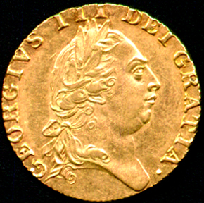 Gold guinea of George III, dated 1789. The inscription reads in Latin, "Georgius III Dei Gratia," or in English "George III, By the Grace of God"